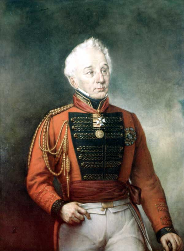 Major-General Sir Frederick Philipse Robinson, KCB [Provisional Lieutenant Governor, Upper Canada, 1815]